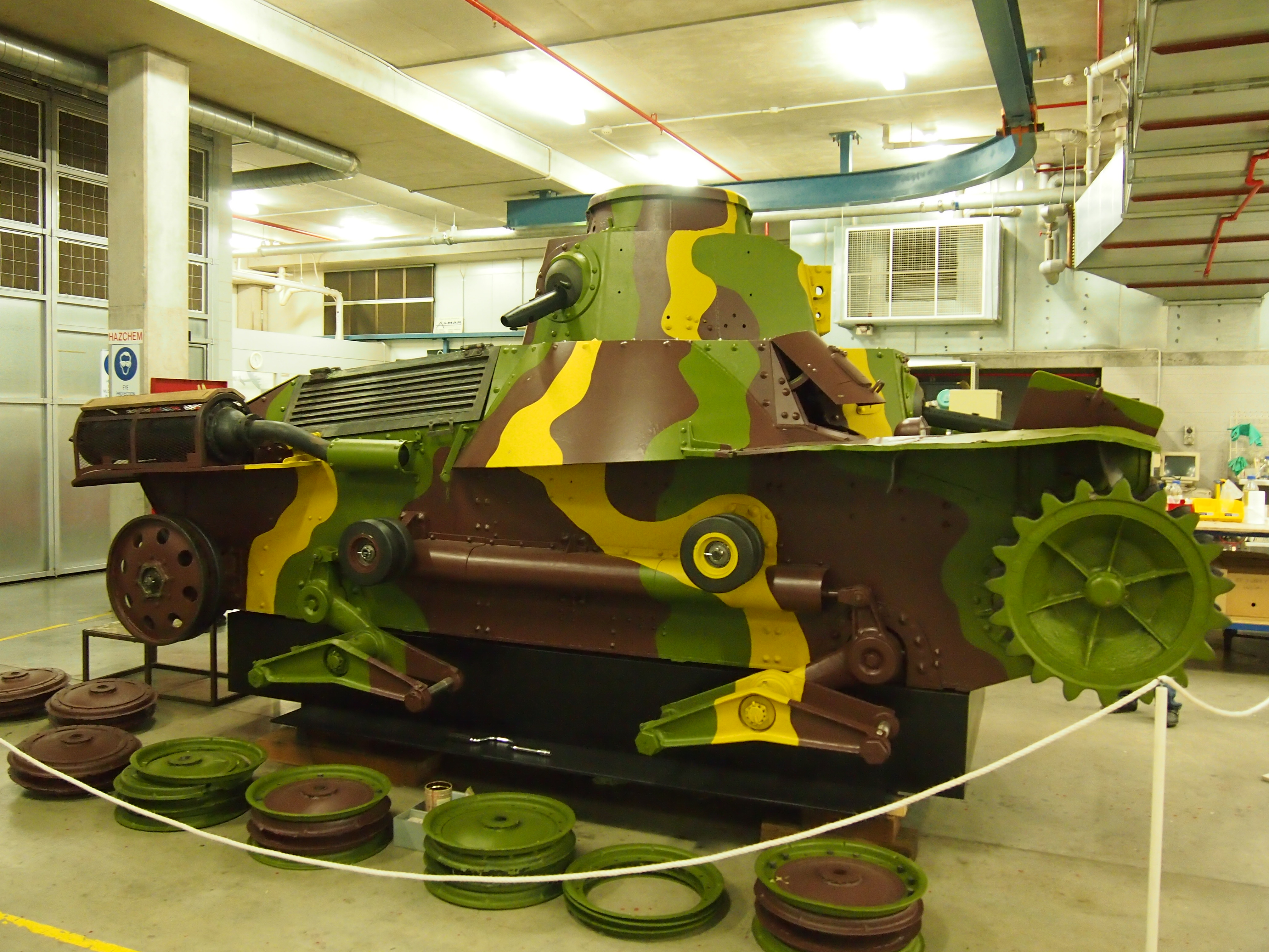 One of the two Type 95 tanks which were captured at the Battle of Milne Bay under restoration at the Australian War Memorial's Treloar Technology Centre in September 2012.